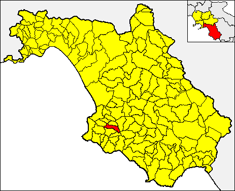 Locator map of the municipality of Lustra (red) within the Province of Salerno